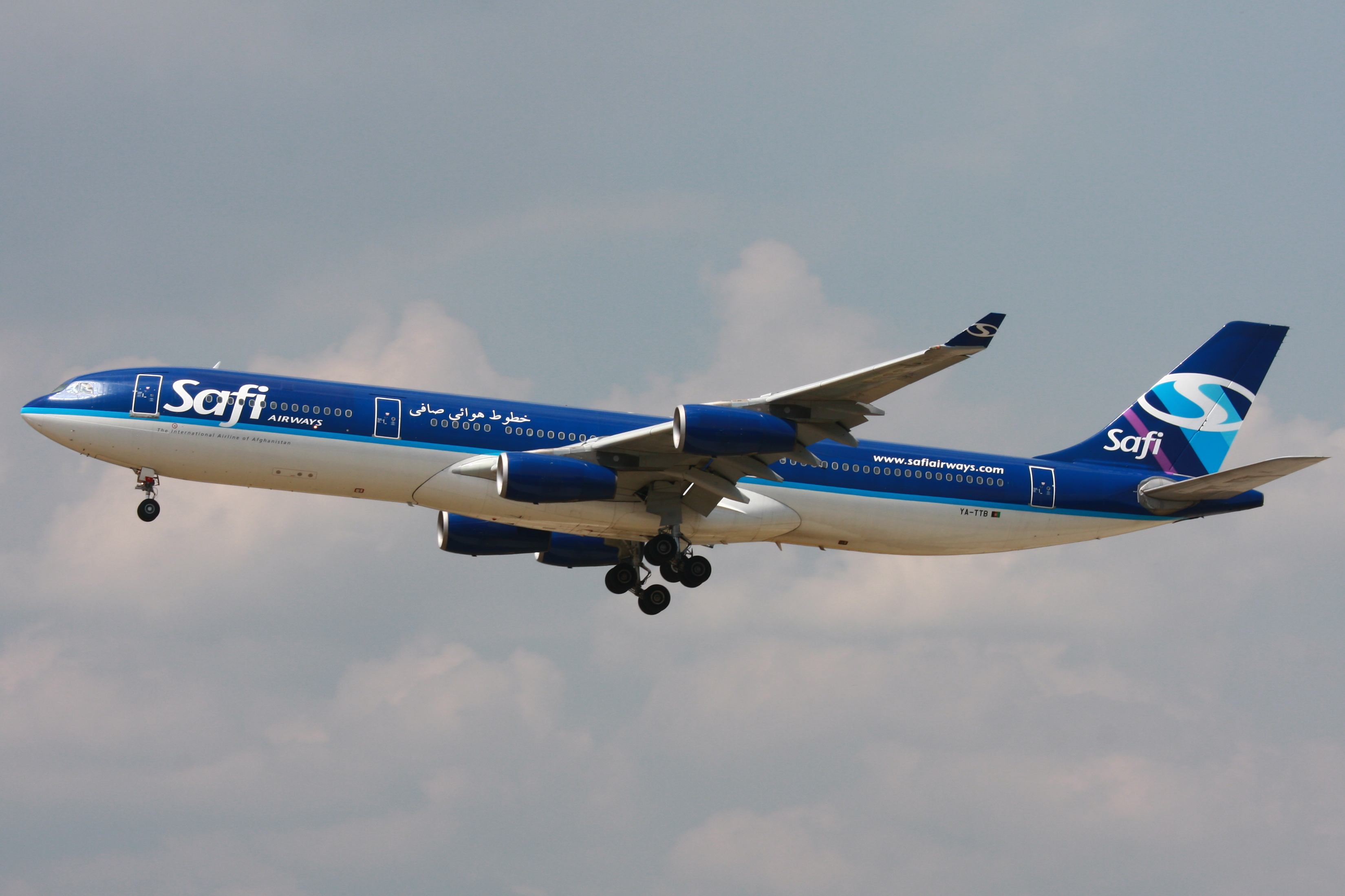 A A340-300 of Safi Airways landing at Frankfurt Airport